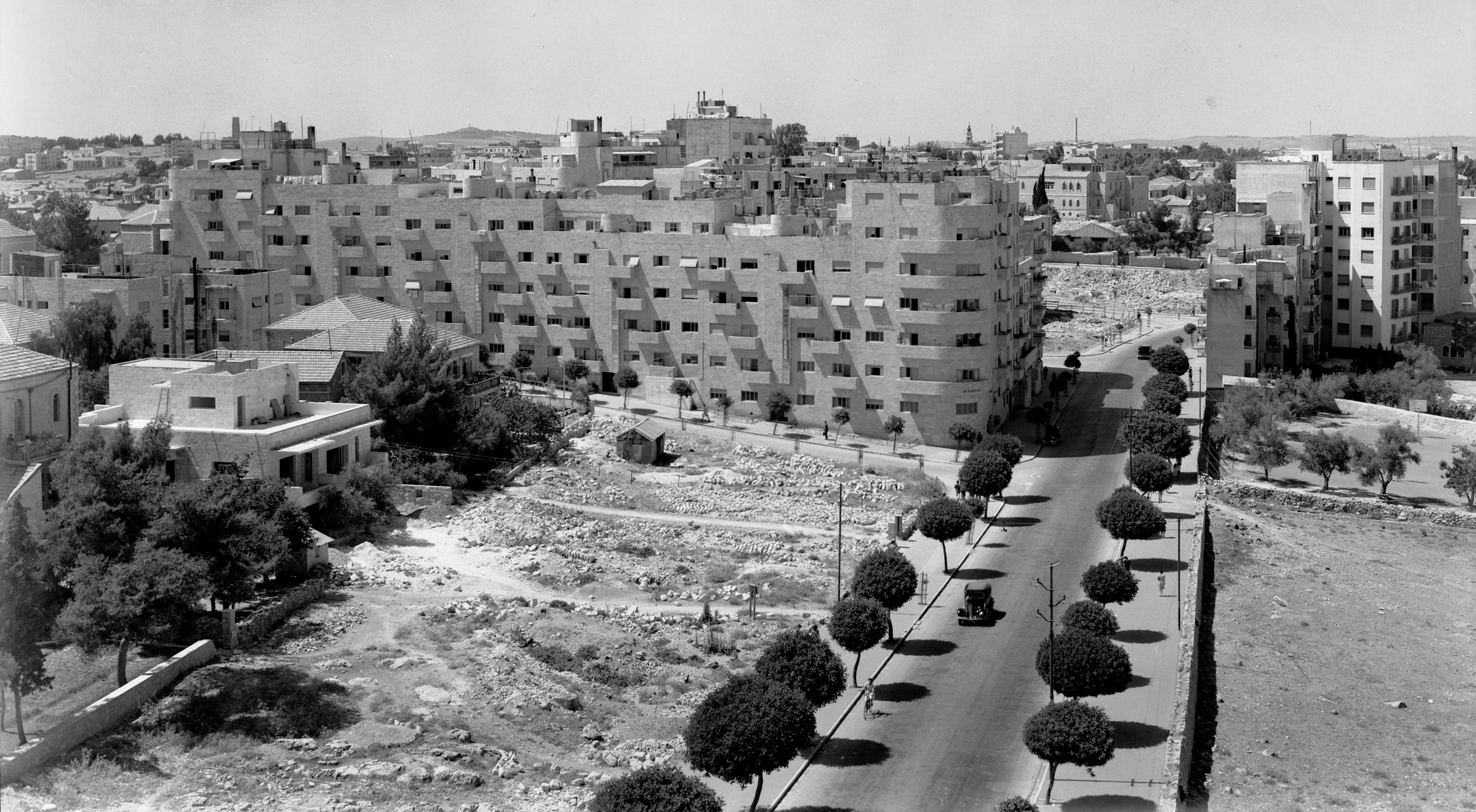 Continuation of cyclorama, western sections, Jerusalem